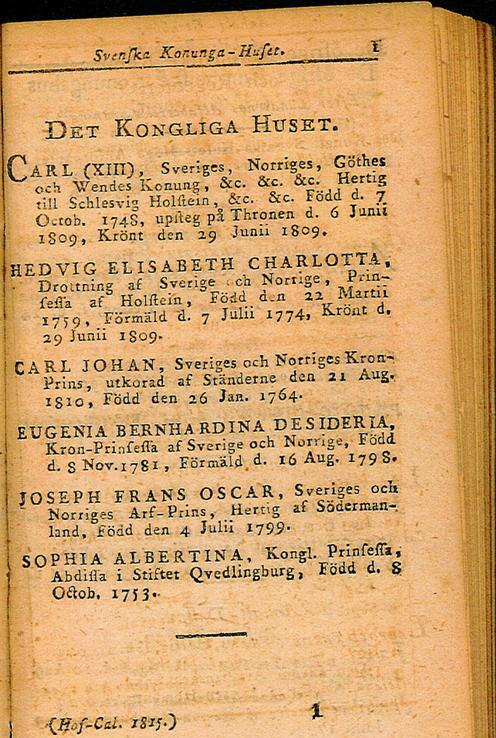 Page of Swedish government gazette Hof-Calendern (later called Statskalendern) Place: Stockholm, Sweden